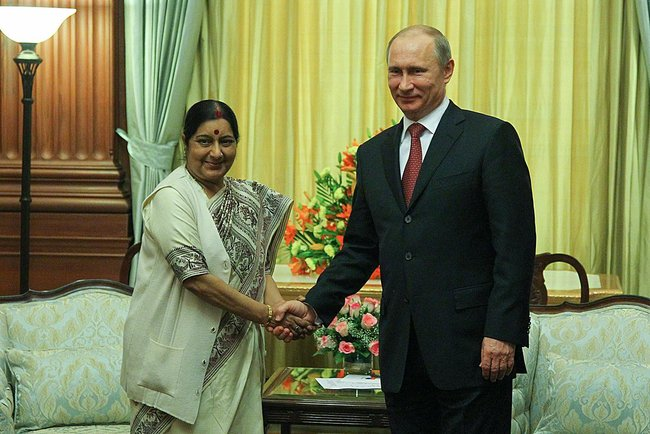 2012-12-24 President of Russia Vladimir Putin made an official visit to India. Putin with opposition leader Sushma Swaraj.